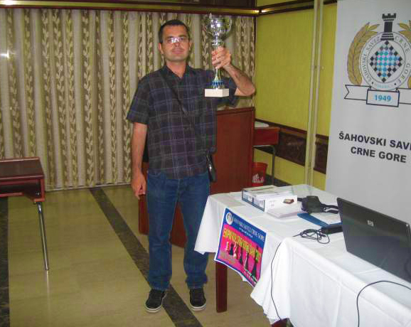 Slavko Dedić, Tournament in Cetinje, 2010.